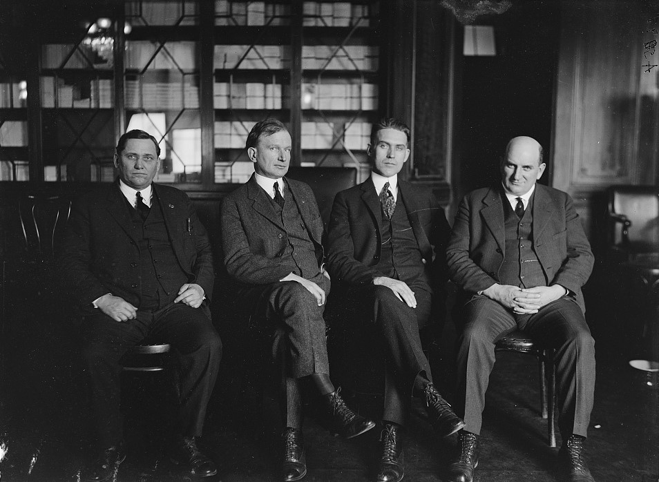 Title: The 4 new Senators at the Capitol: left to right: Sen. S.W. Brookhard, B.K. Wheeler, Dr. Henrik Shipstead, and Lynn J. Frazier. Abstract/medium: 1 negative : glass ; 5 x 7 in. or smaller